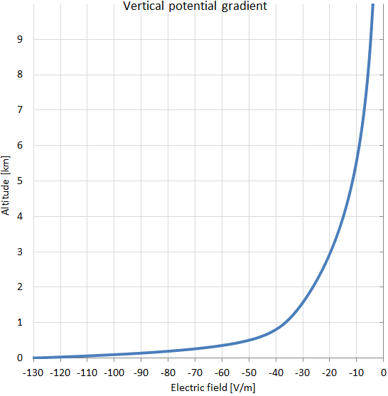 Vertical electrical potential gradient fairweather